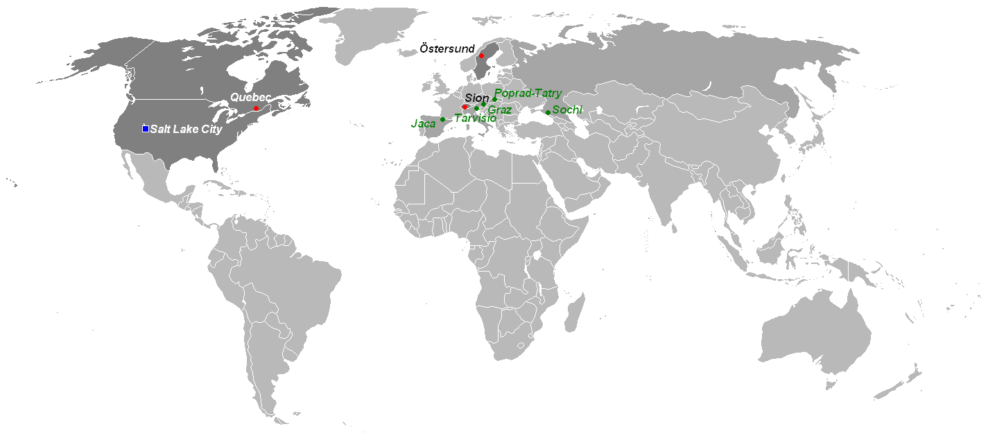 The candidate cities to host the 2002 Winter Olympics, derived from blank world map. Green : Applicant cities Black: Candidate cities